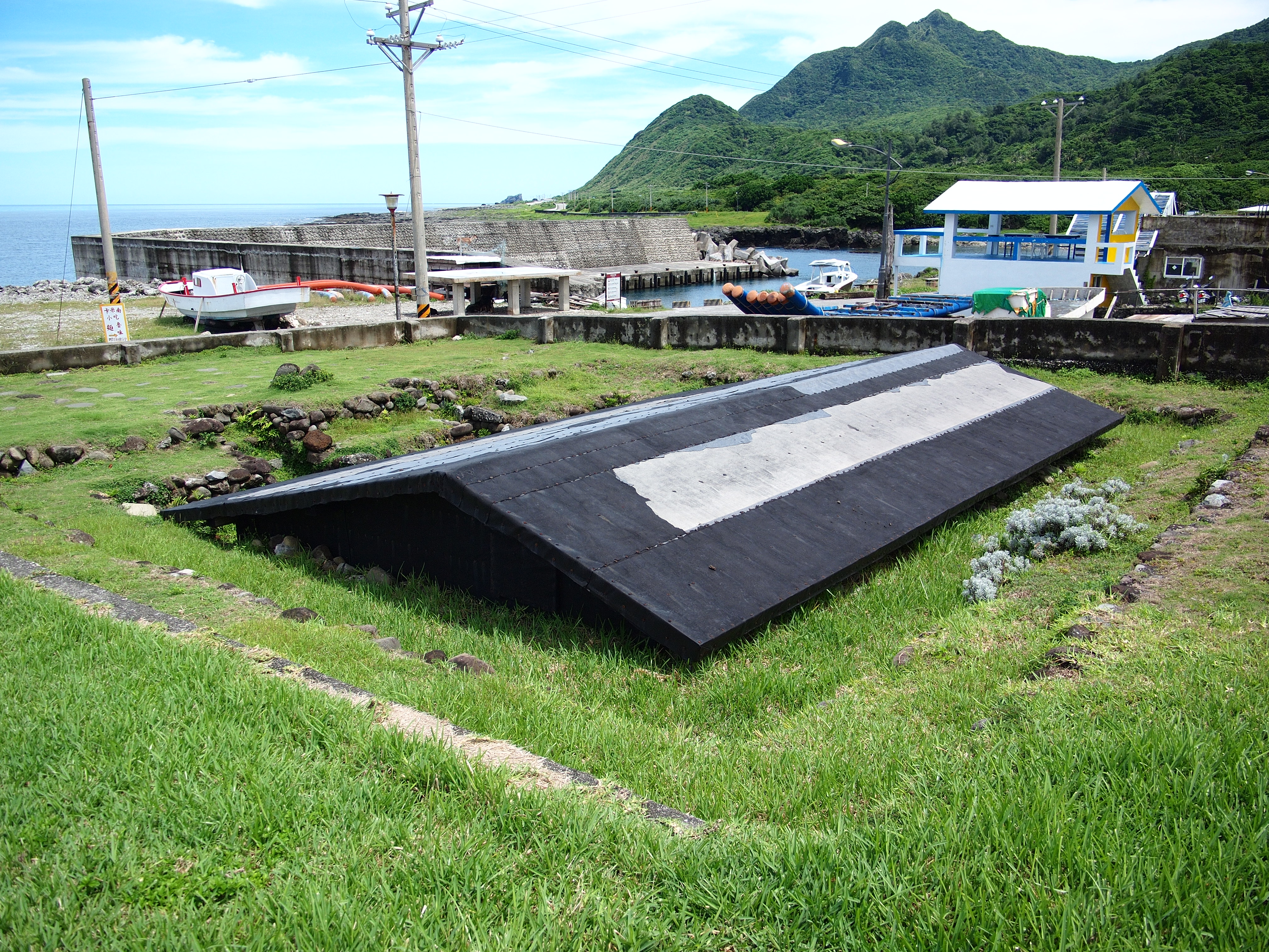 Traditional Tao Building in Orchid Island